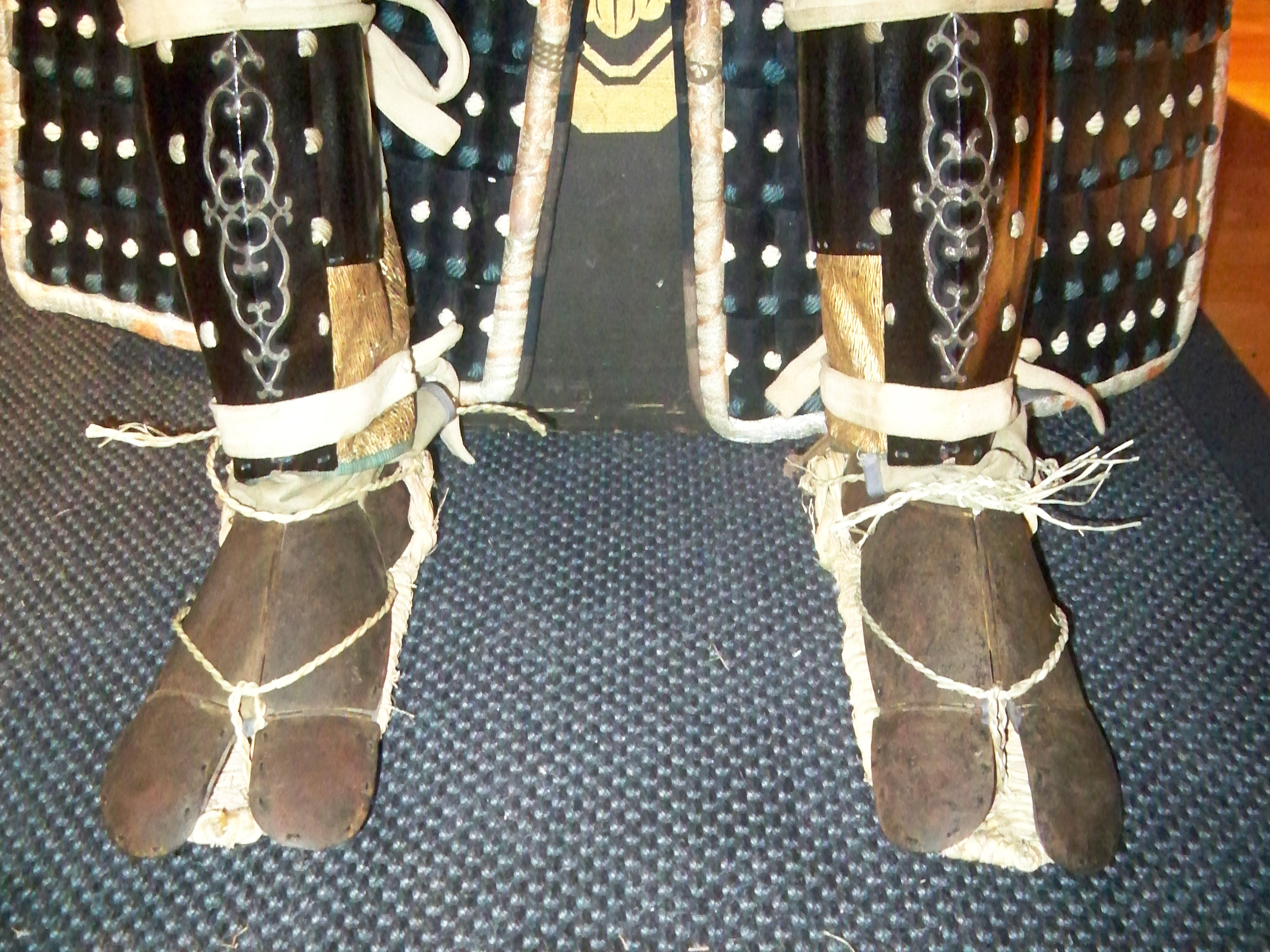 Japanese (samurai) armored tabi socks "Kôgake", iron plates connected to each other by hinges.